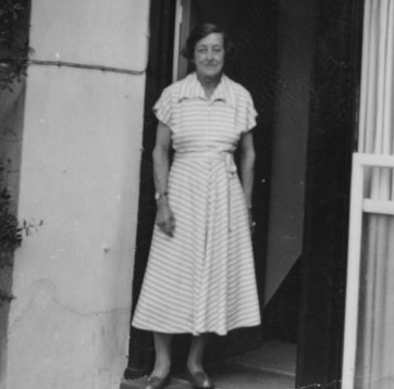 Professor of Economic History 1944 -1954 IMAGELIBRARY/101 Persistent URL